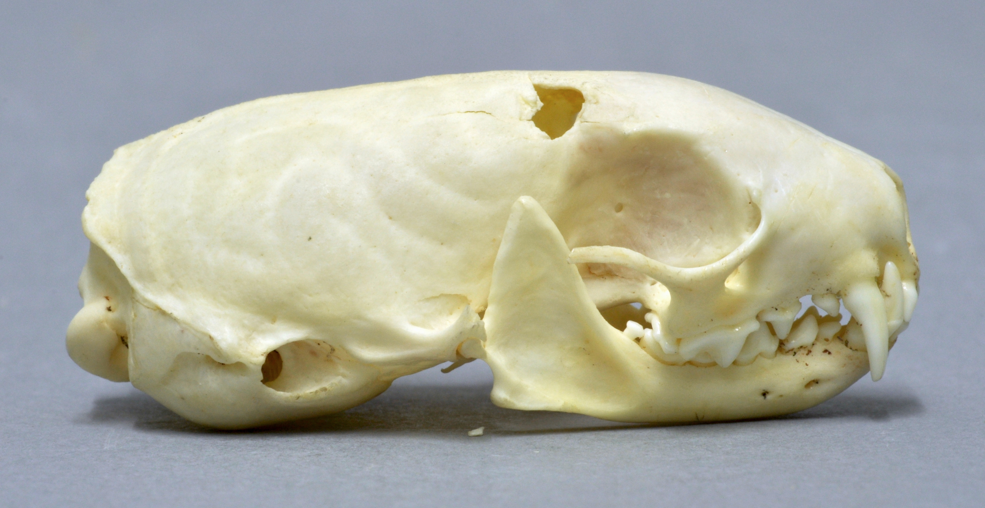 Stoat Mustela erminea , skull, Coll. Museum Wiesbaden